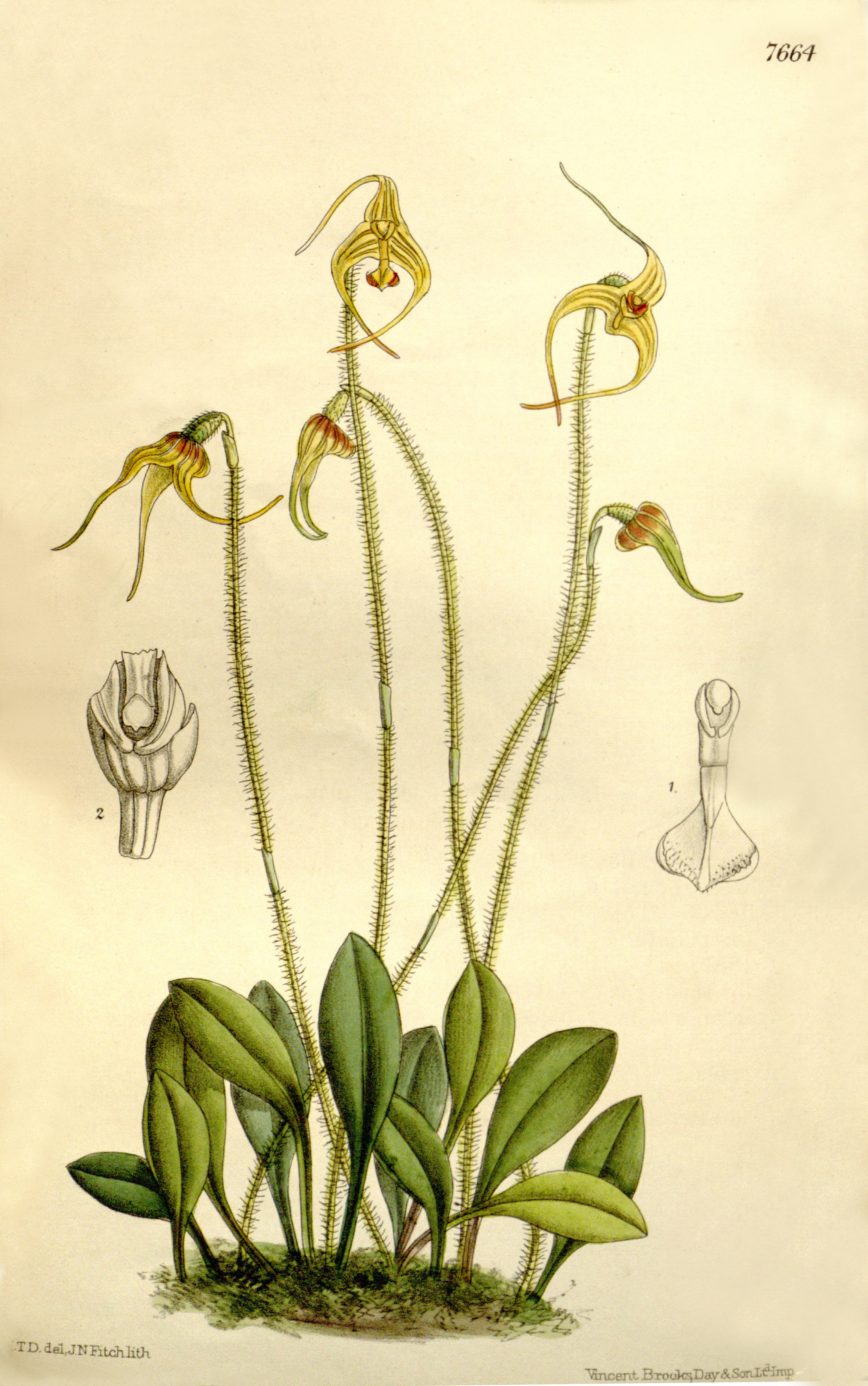 Illustration of Porroglossum muscosum (as syn. Masdevallia muscosa)